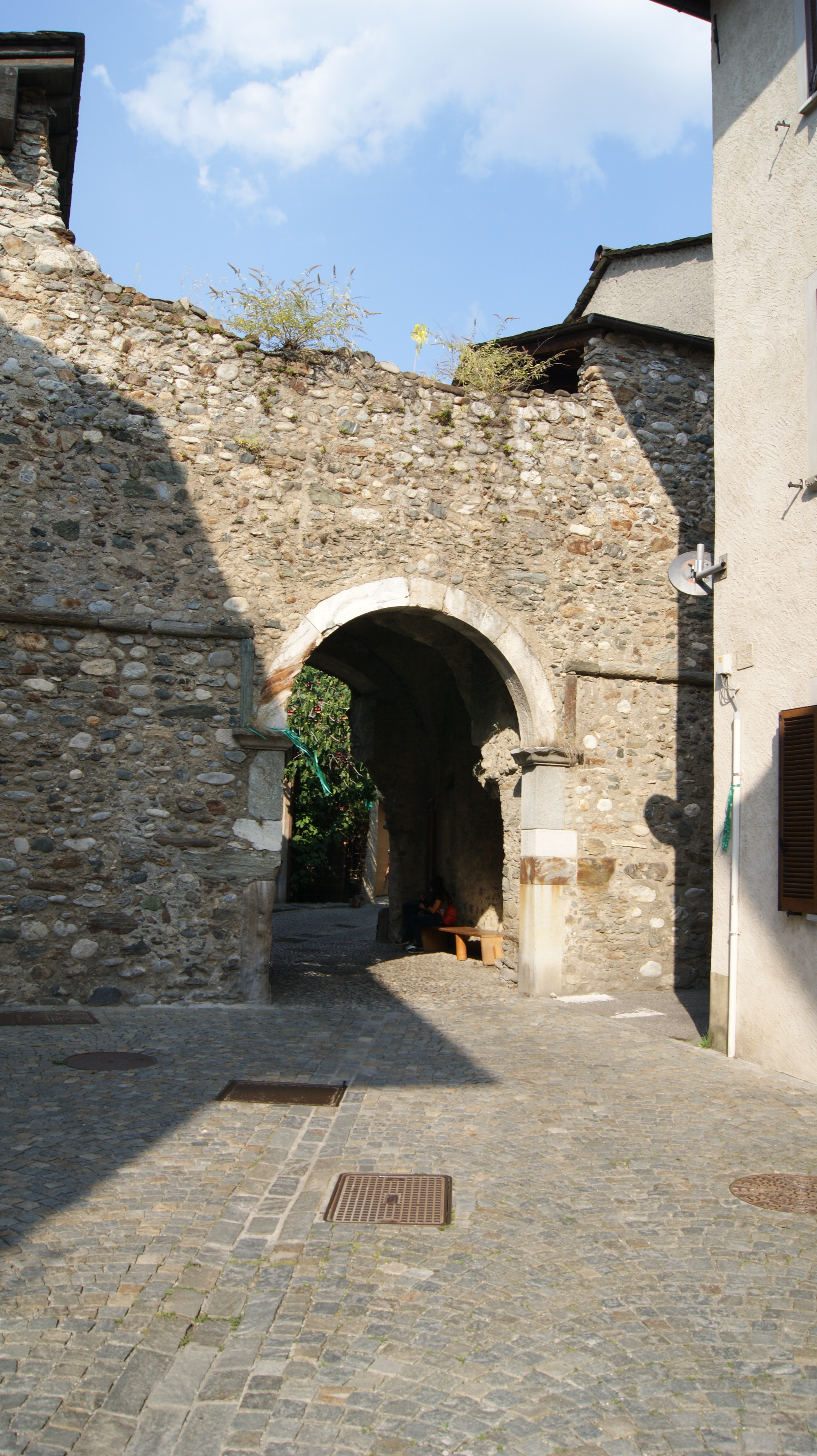 Town fortification of Tirano, Porta Milanese.